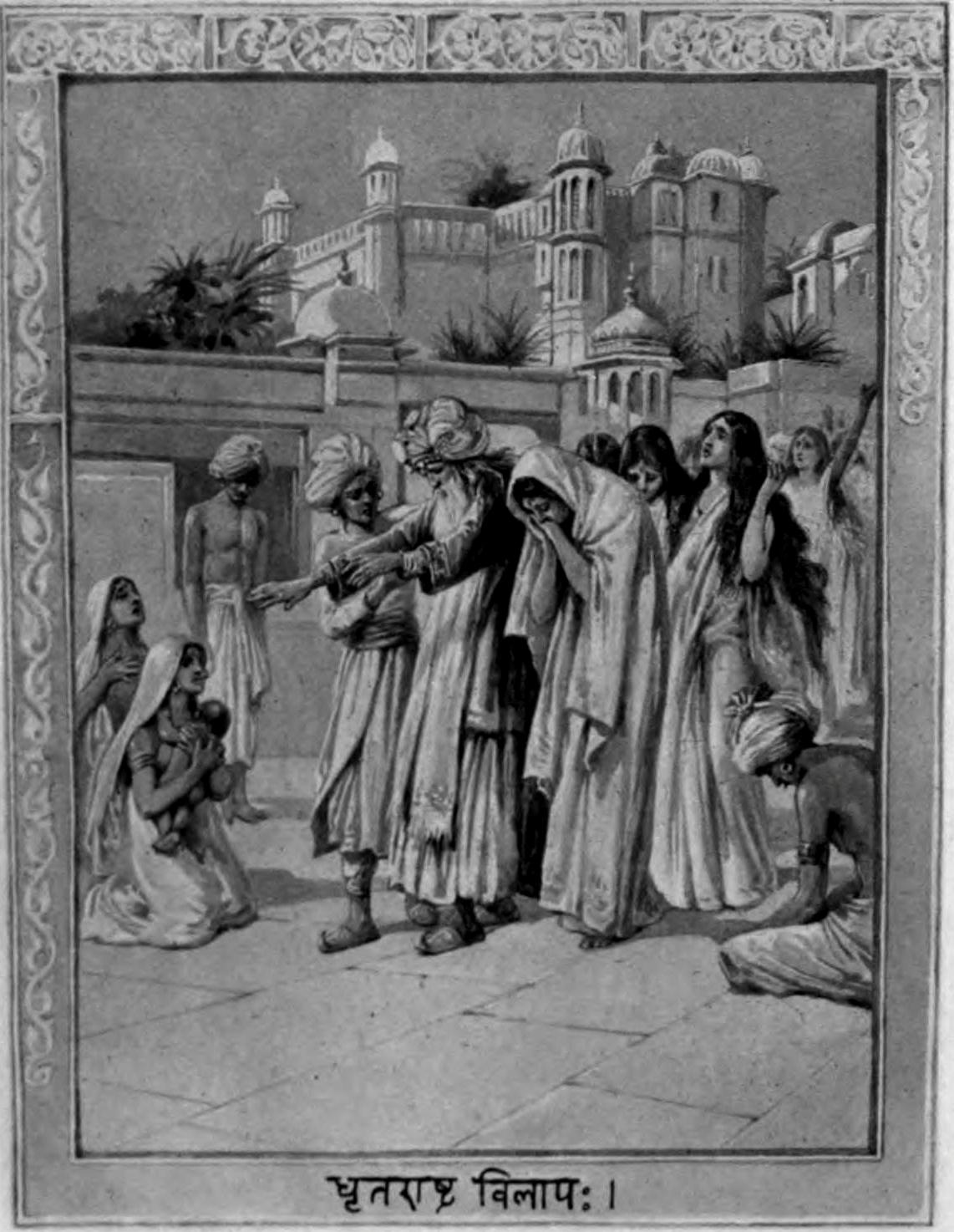 from the book of mahabharata by Romesh Chunder Dutt